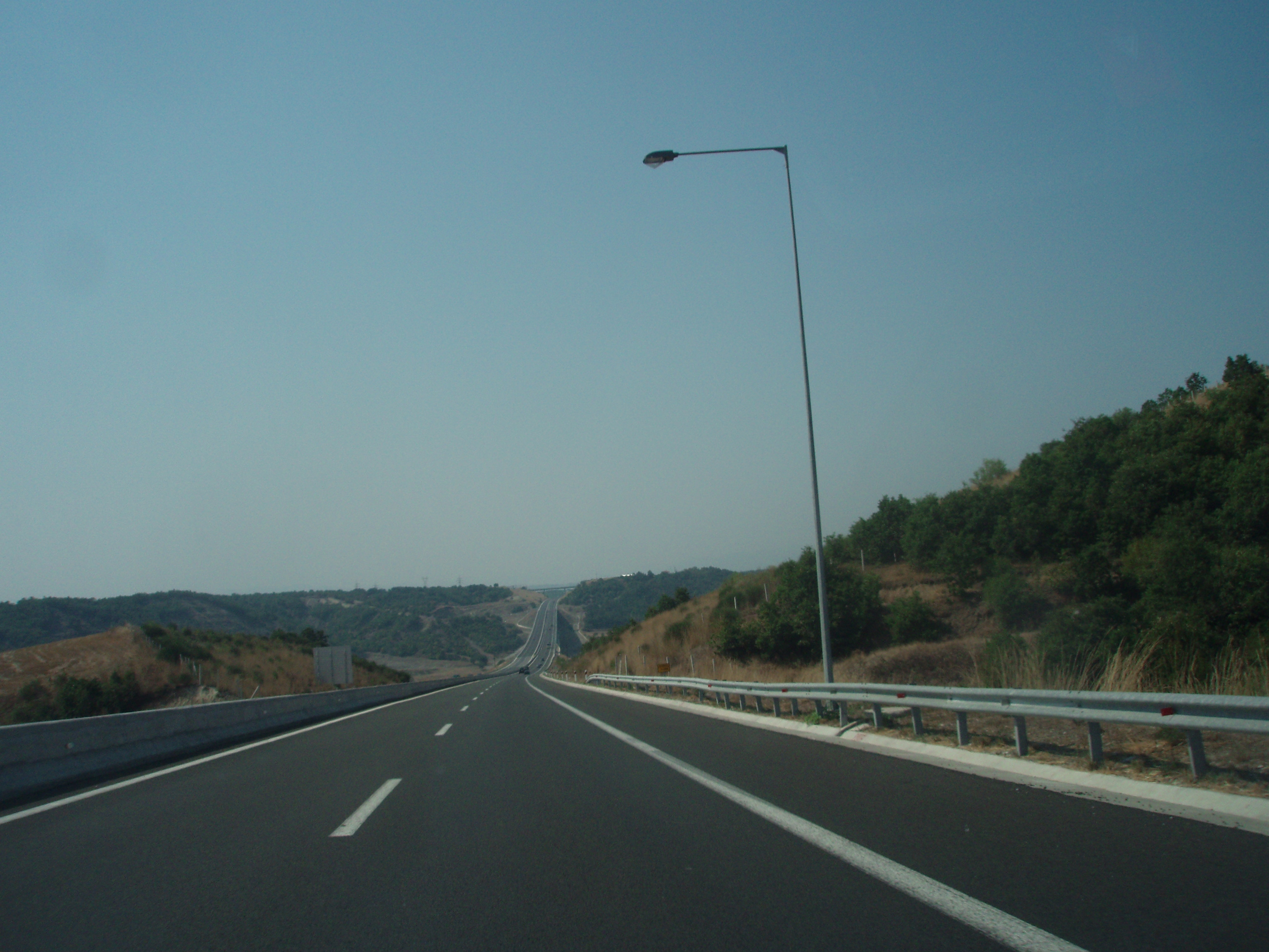 A2 motorway (Egnatia Odos) in Greece, section Grevena-Venetikos. Greveniotikos bridge west of the city of Grevena is shown.